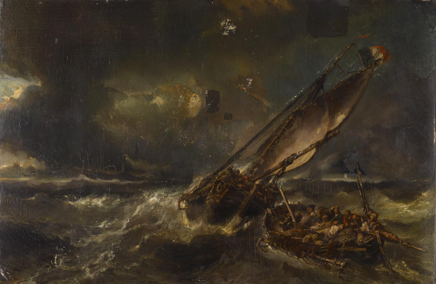 In high seas, a sailboat heeling to starboard tows another boat that has lost its mast and is crowded with huddling figures and tangled rigging. A paddle-wheel steamer is visible against the horizon. The storm is passing and a ray of light is breaking through the scudding clouds at the left.